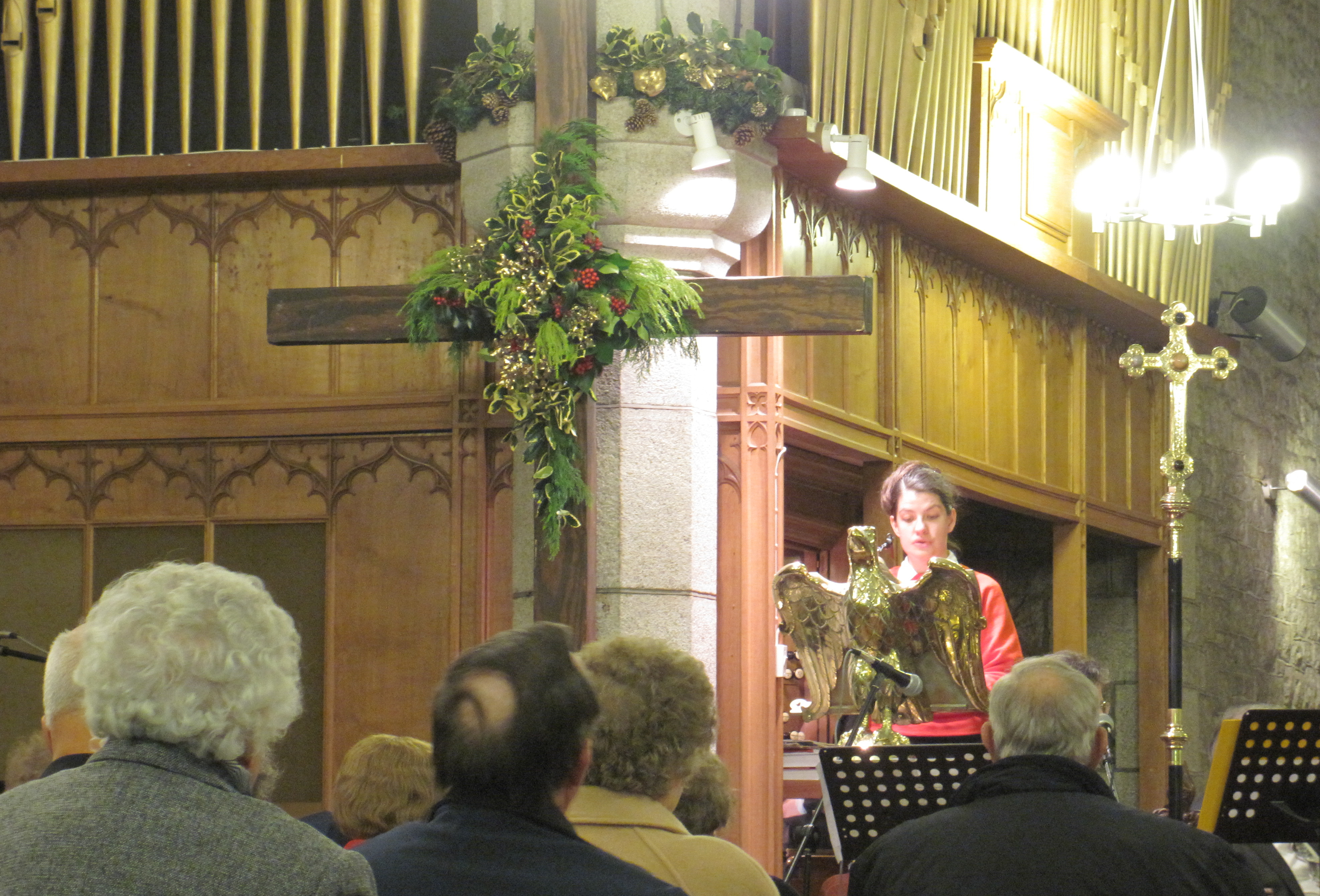 Service of Nine Lessons and Carols in Jèrriais, Saint Andrew's Church, Saint Helier, Jersey, December 2009